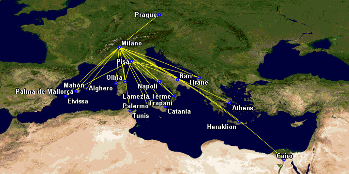 Air One Network (Summer 2011)